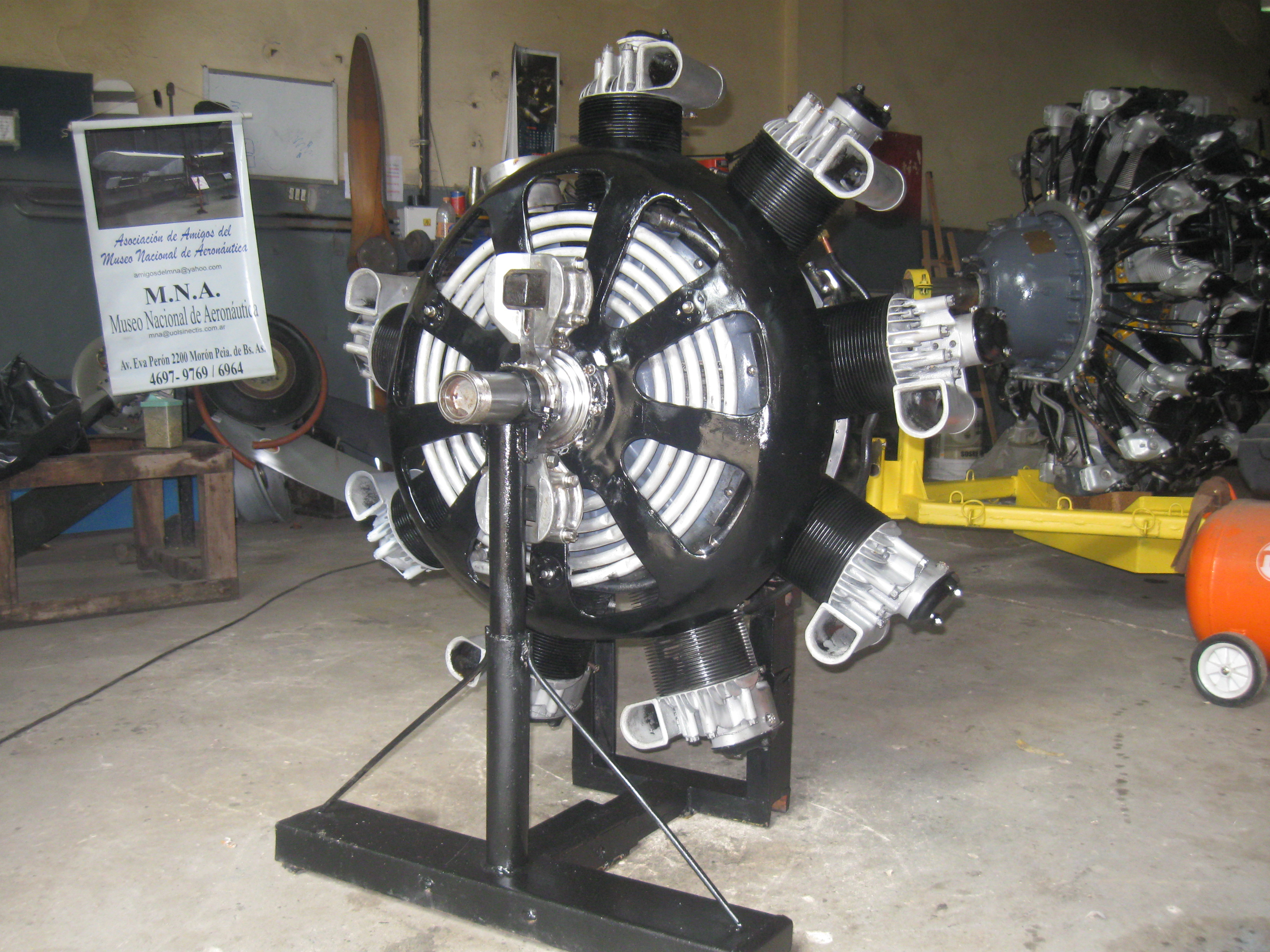 This engine was restored by the Museum's Friends Assn. It powered the BUHL C3 plane which was used by PACKARD to demonstrate the economy of the diesel engine. Serial number 120